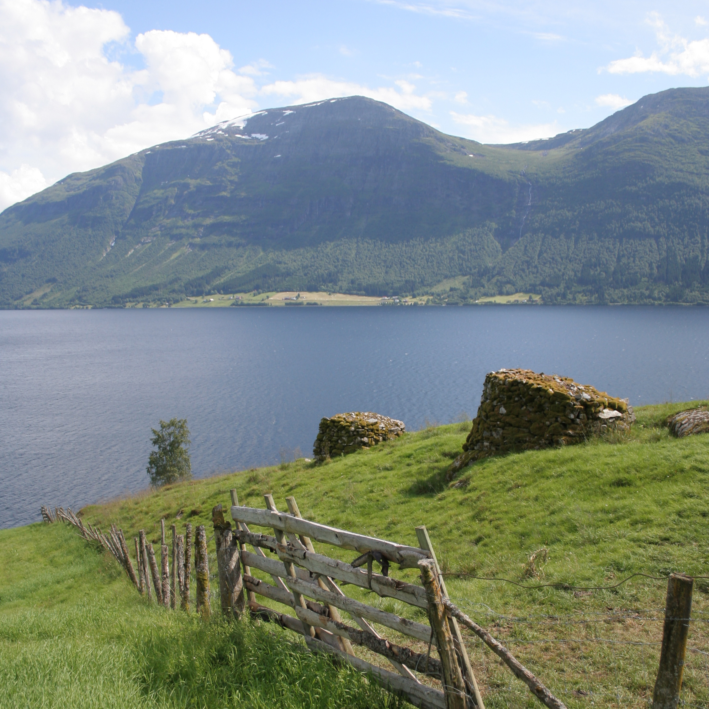 From Heggjabygda on the sunny side of Hornindalsvatnet (lake), there is a magnificent view over the lake and surrounding mountains. Directly across the lake is the farms at Skrede.